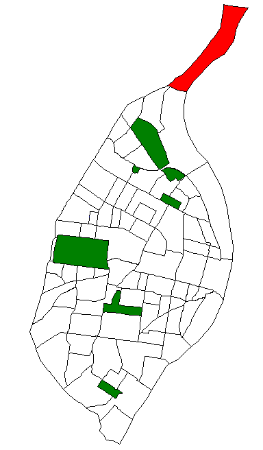 Map of St. Louis Neighborhood #75 (Riverview)